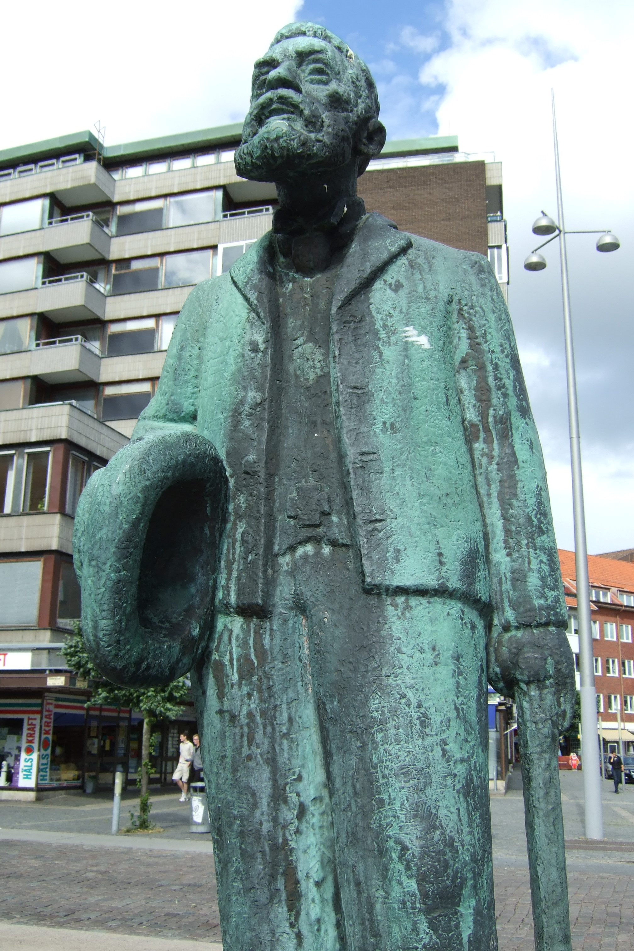 Statue of August Palm in Helsingborg, Sweden by sculptor Ture Johansson